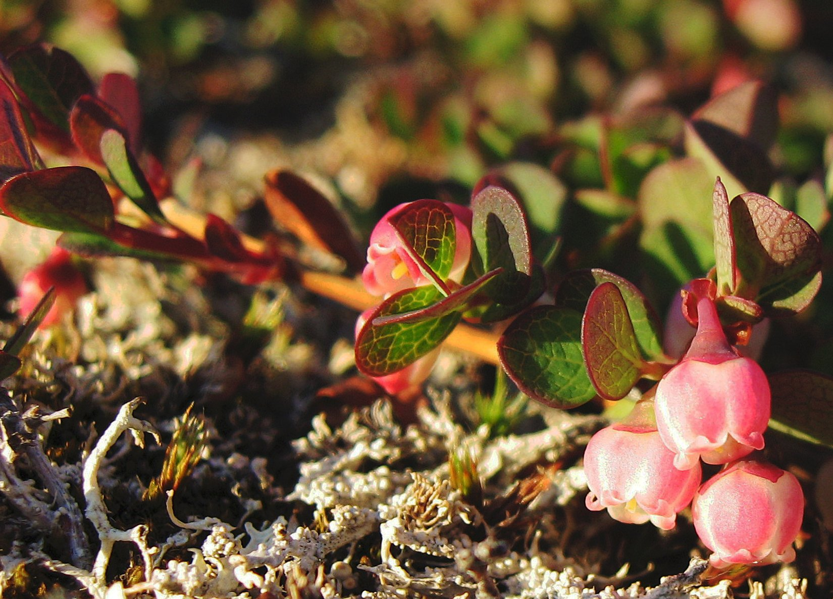 Bog Blueberry (Vaccinium uliginosum) photographed in midnight sun near Upernavik, Greenland. The photo is a trimmed version of the original photo.